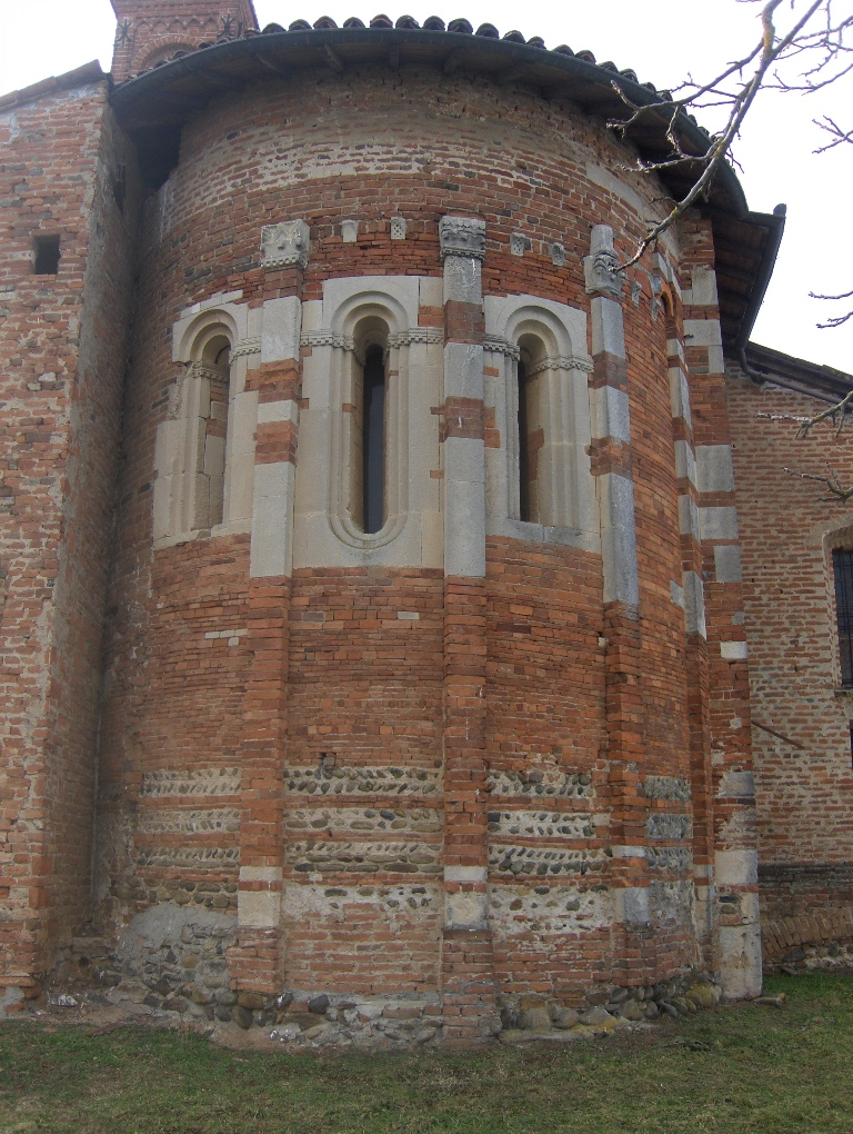 romanesque church